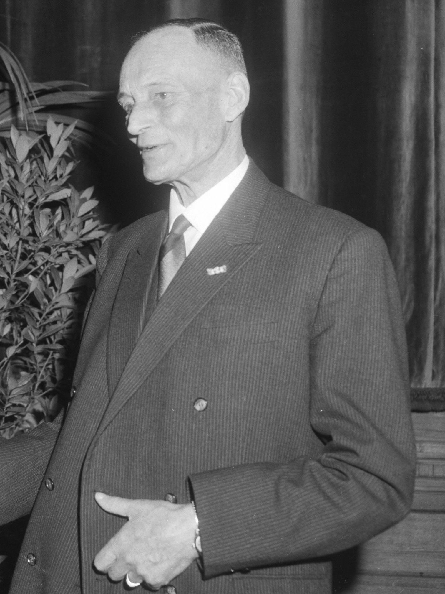 Dutch professor Victor Koningsberger (1965)